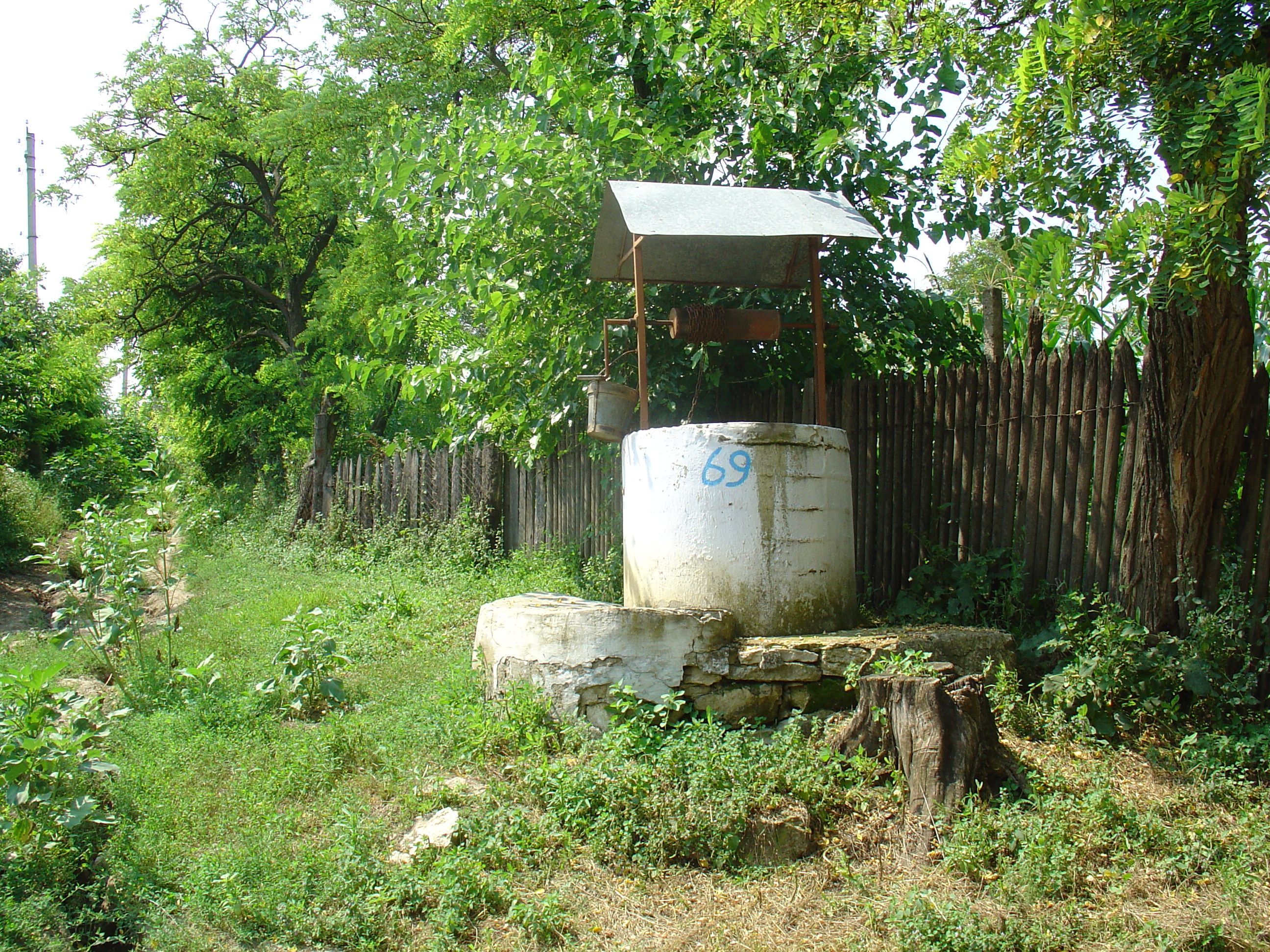 Well in Bravicea, Călărași, Moldova